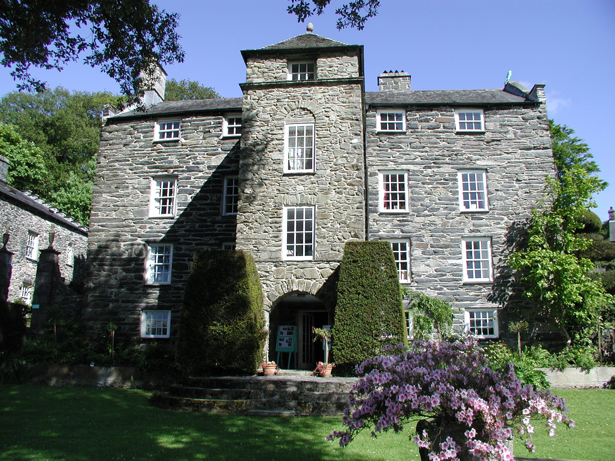 The house at Plas Brondanw, North Wales, family home of Clough Williams-Ellis, creator of the Italianate village Portmeirion. Photographed by me 31 May 2005. Oosoom